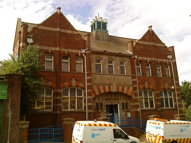 Selly Oak Library, Data from Geograph: Description: SP0482 :: Selly Oak Library, near to Selly Oak, Birmingham, Great Britain ICBM: 52.4435718112, -1.9363856854365 Location: (about 1 km from) near to Selly Oak, Birmingham, Great Britain.